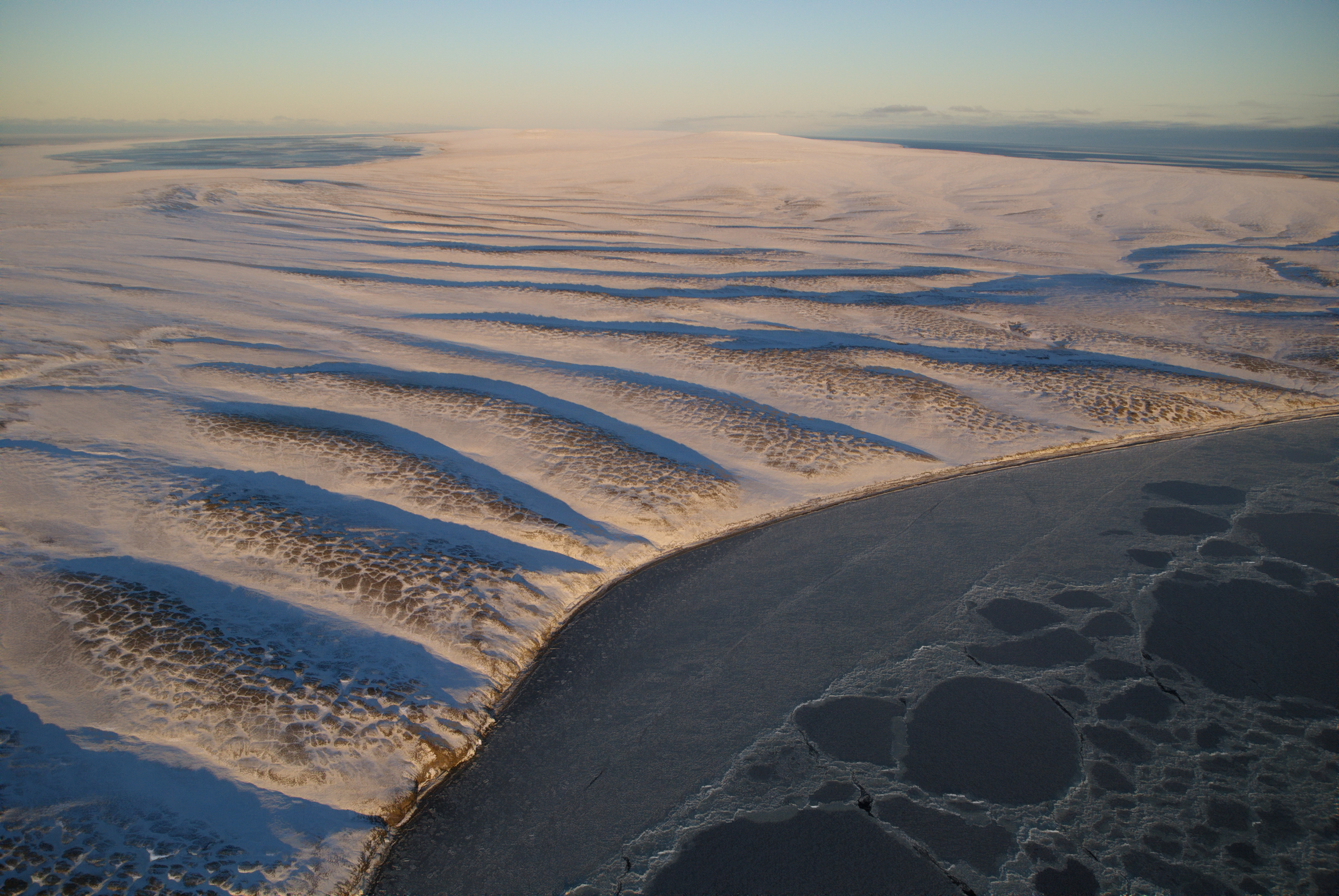 Undulated and desolate terrain of Stolbovoy Island, part of the large Lena Delta resource reserve